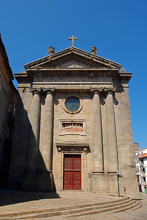 Santiago de Compostela, Church of las Ánimas